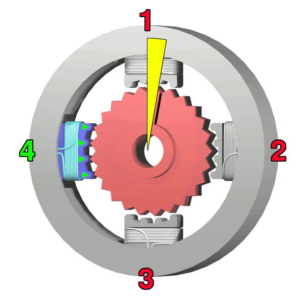 Illustration of a stepper motor. Created by Wapcaplet using Blender and the GIMP.